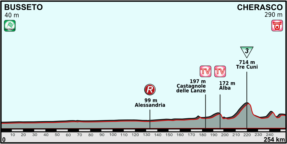 Giro d'Italia 2013 - stage profile # 13